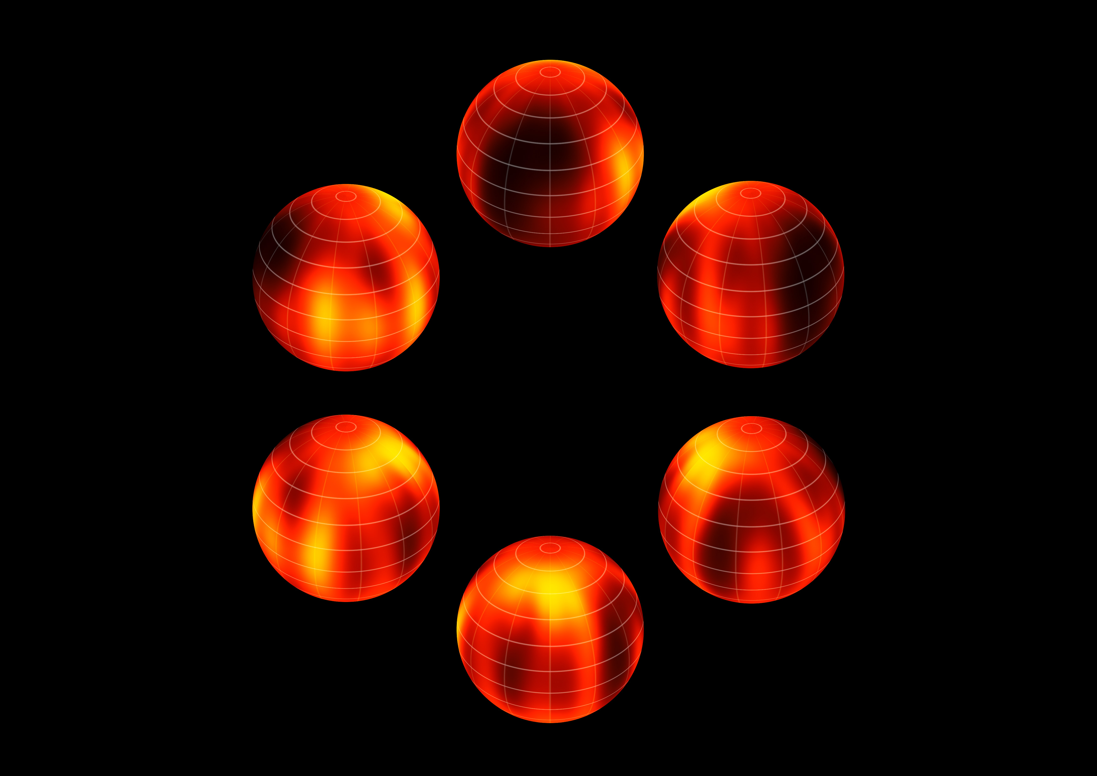 ESO's Very Large Telescope has been used to create the first ever map of the weather on the surface of the nearest brown dwarf to Earth. An international team has made a chart of the dark and light features on WISE J104915.57-531906.1B, which is informally known as Luhman 16B and is one of two recently discovered brown dwarfs forming a pair only six light-years from the Sun. The figure shows the object at six equally spaced times as it rotates once on its axis.